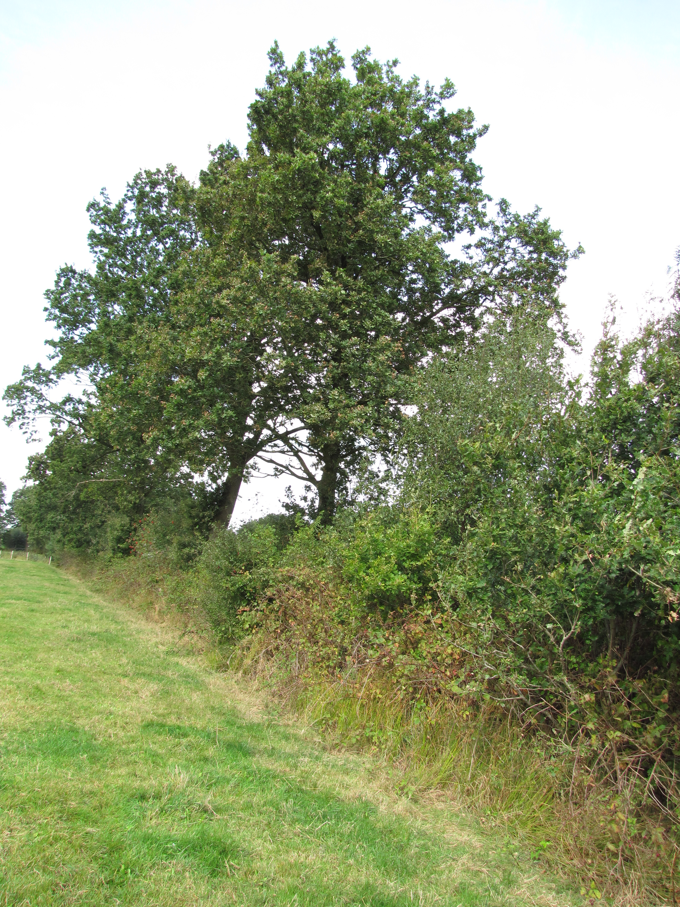 Earth wal with trees/bushes between the different fields in the norht east of Fryslân